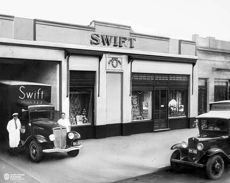 A Swift Co. meat packing plant in La Plata, Buenos Aires.